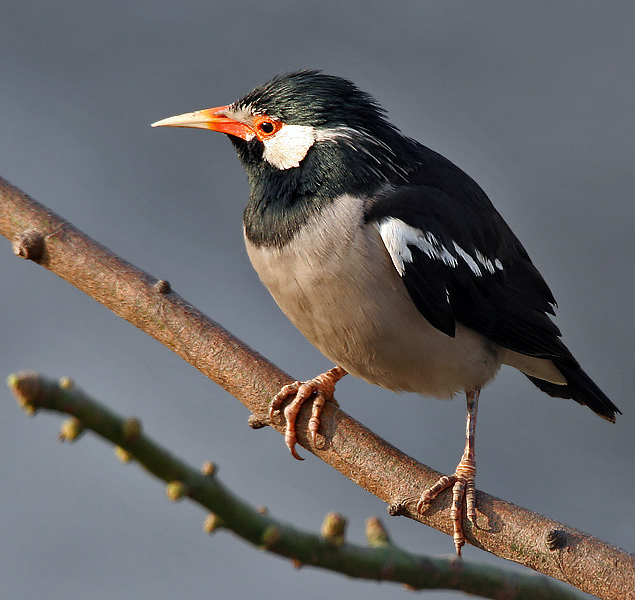 Asian Pied Starling Sturnus contra in Kolkata, West Bengal, India.